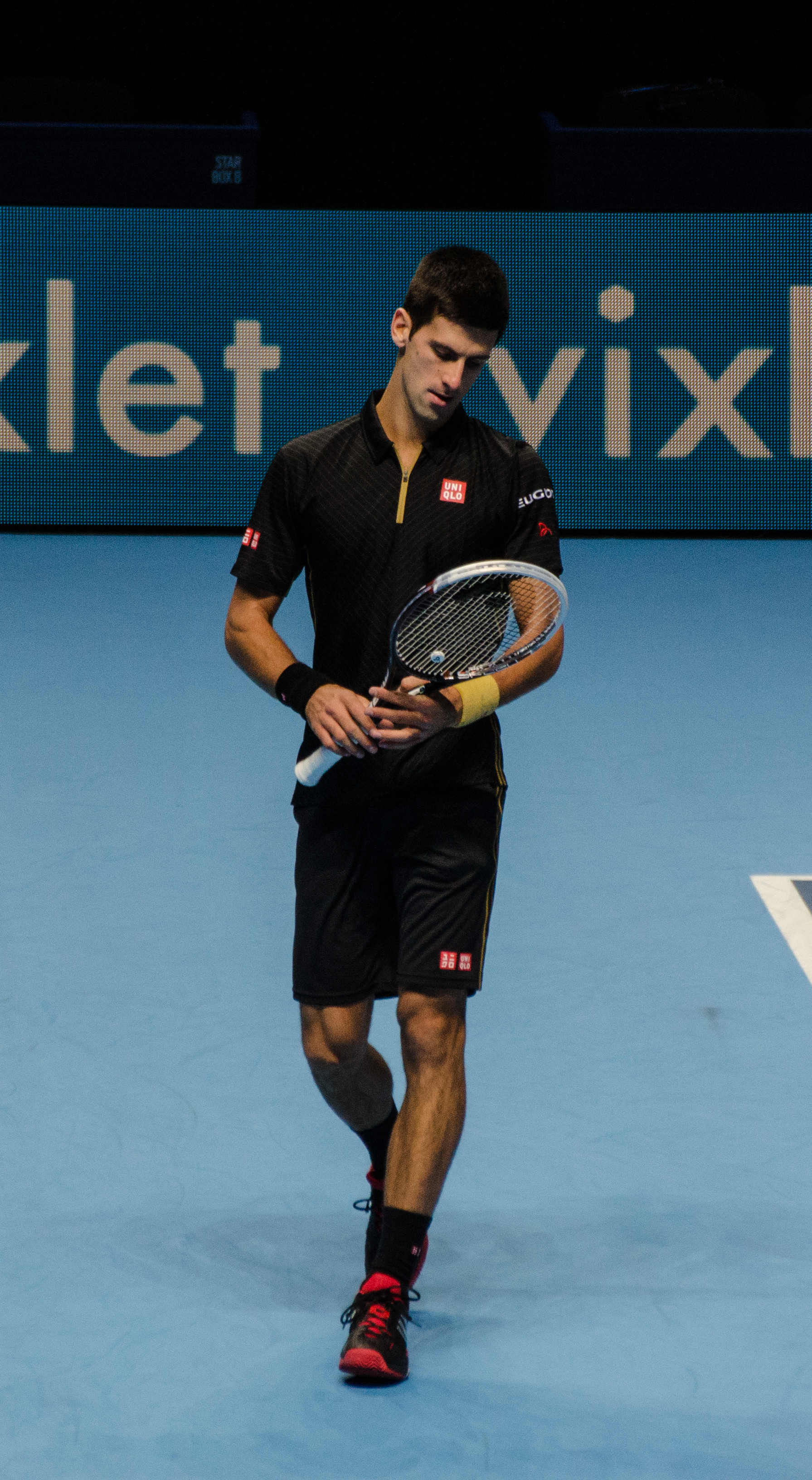 This is a photo of a tennis game at the ATP World Tour Finals.